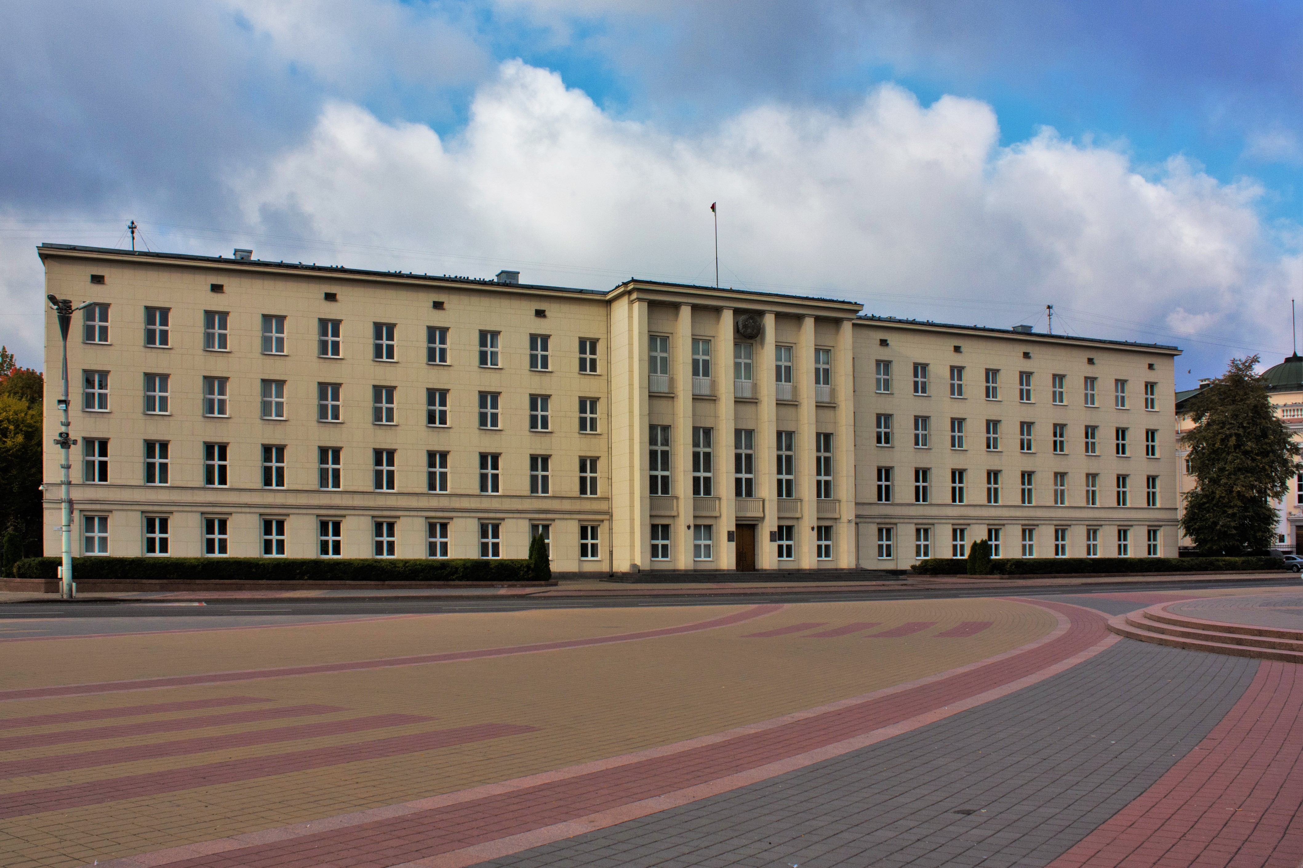 Brest Regional Executive Committee, Lienina Street 11 This is a photo of Belarusian heritage monument. Reference number: 113Г000013 ( WLM)